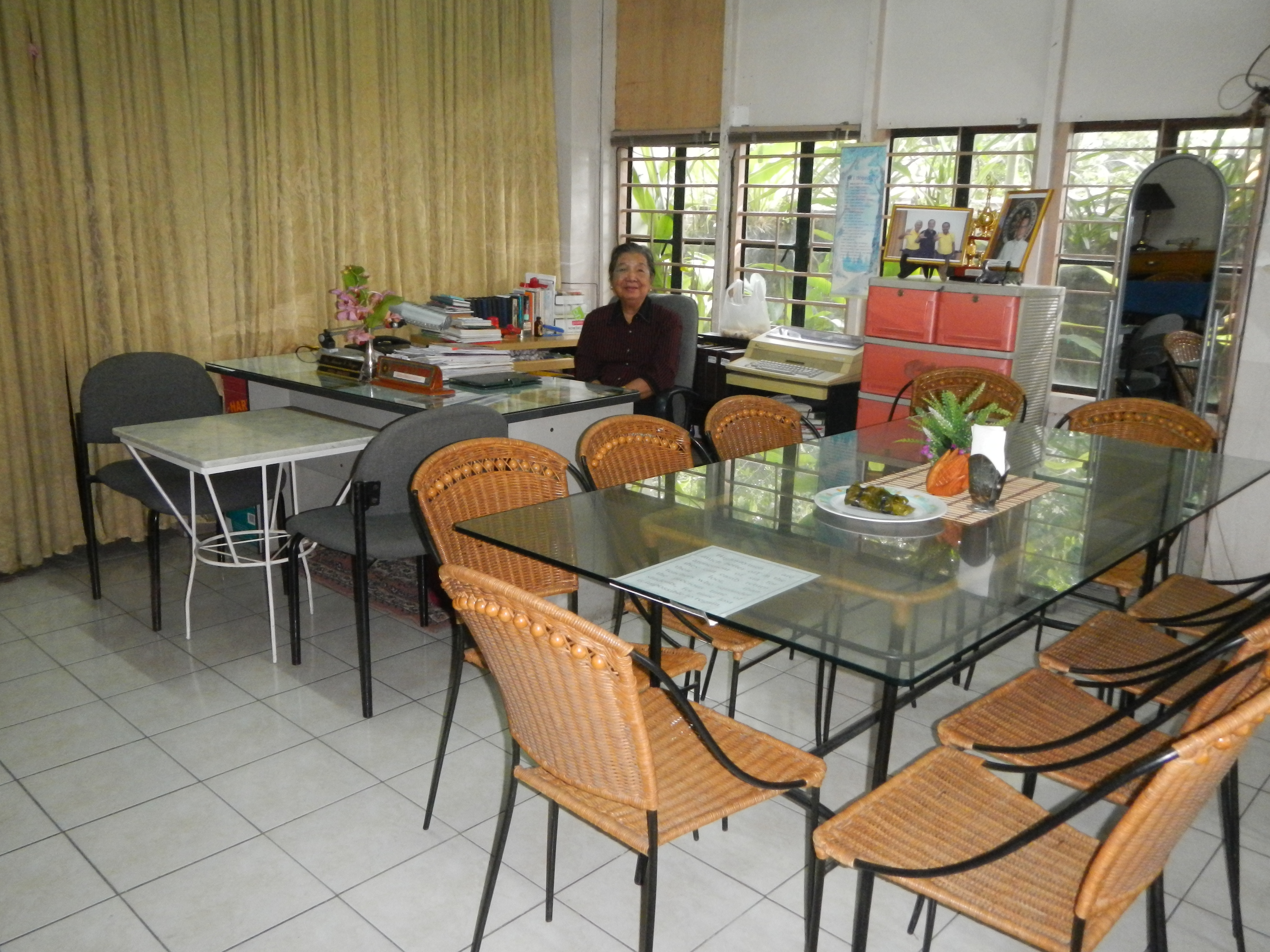 Directress Aurora Reyes, in photo Polytechnic University of the Philippines, Pulilan [1] Barangay Poblacion, Pulilan, Bulacan under the leadership of Directress Aurora Reyes, in photo in her Administration Office, as subsidiary of the Polytechnic University of the Philippines: this building housed the Heritage Old Pulilan, Bulacan Municipal Hall since 1957 but the Hall was transferred to its new site in Town Proper, Centro.